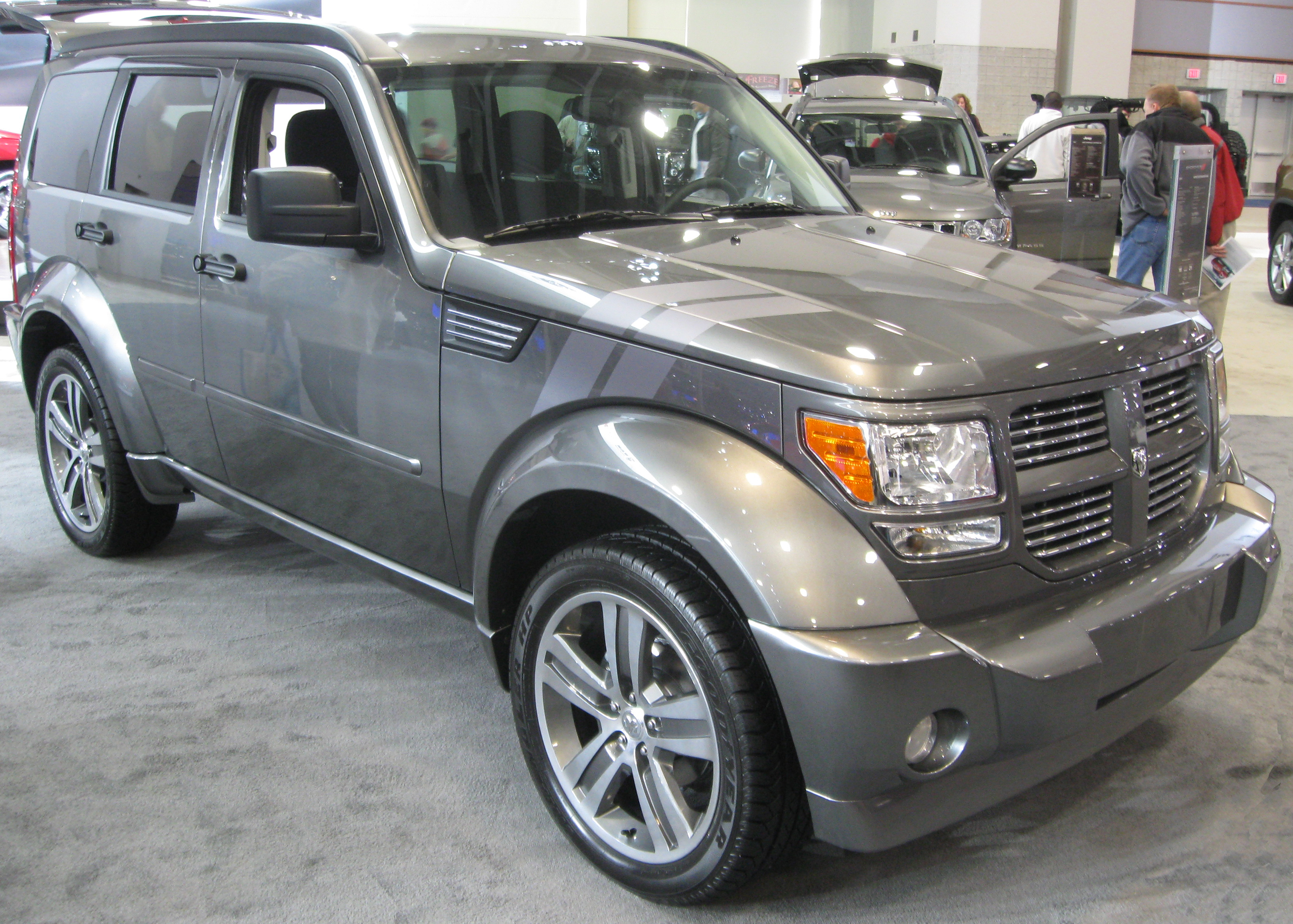 2011 Dodge Nitro photographed at the 2011 Washington (D.C.) Auto Show.